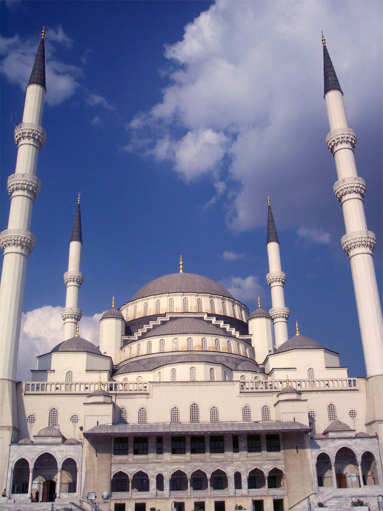 Kocatepe Mosque in Ankara, Turkey.